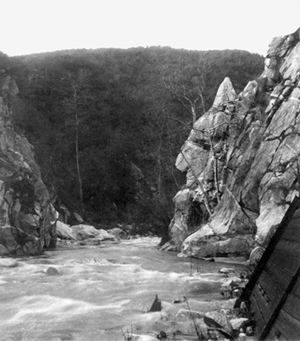 Devil's Gate narrows of the Arroyo Seco (creek), as it leaves the San Gabriel Mountains, Southern California. Photo taken and published before the 1920 damming of the creek.